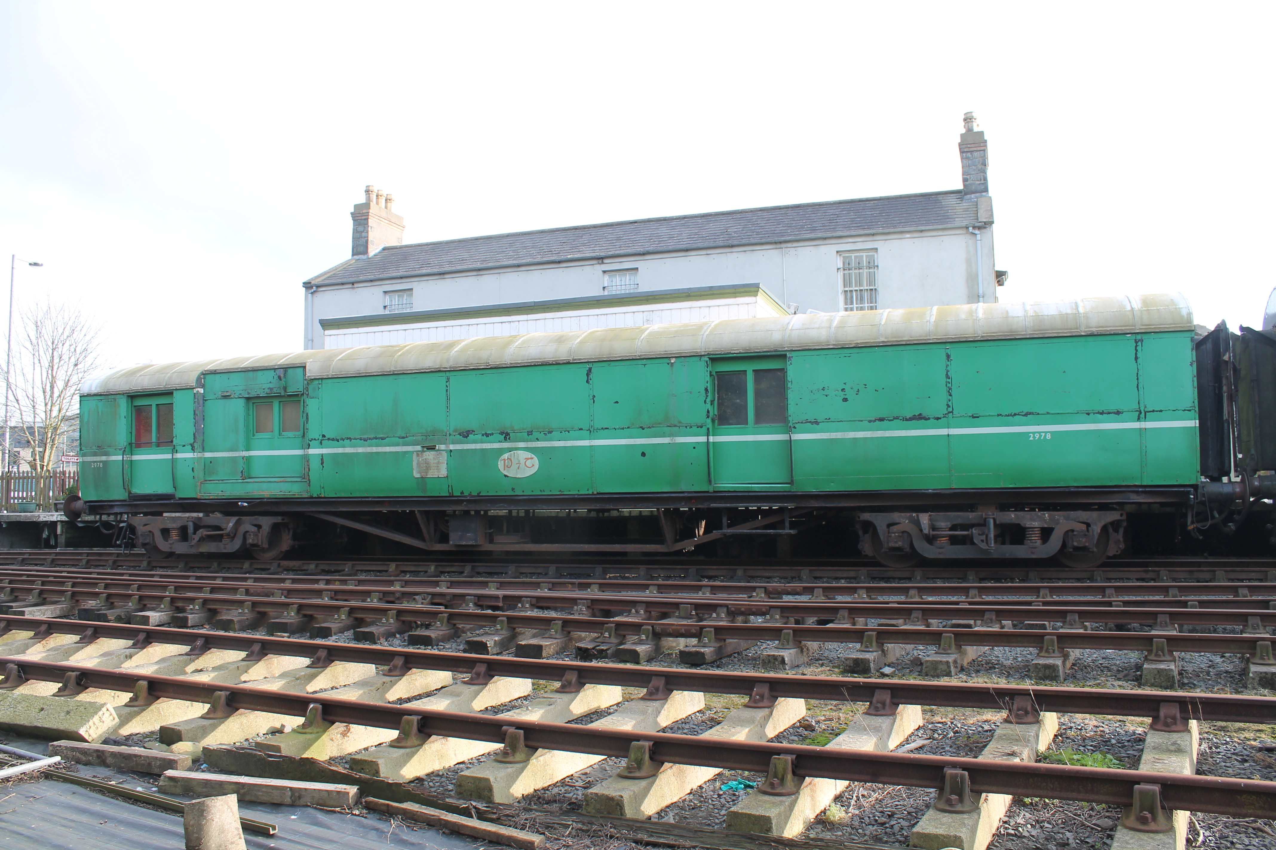 An Post TPO No. 2978 at Downpatrick.